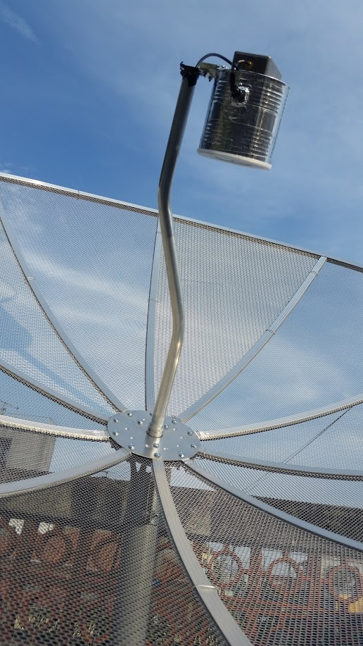 Finished Cantenna in Dish